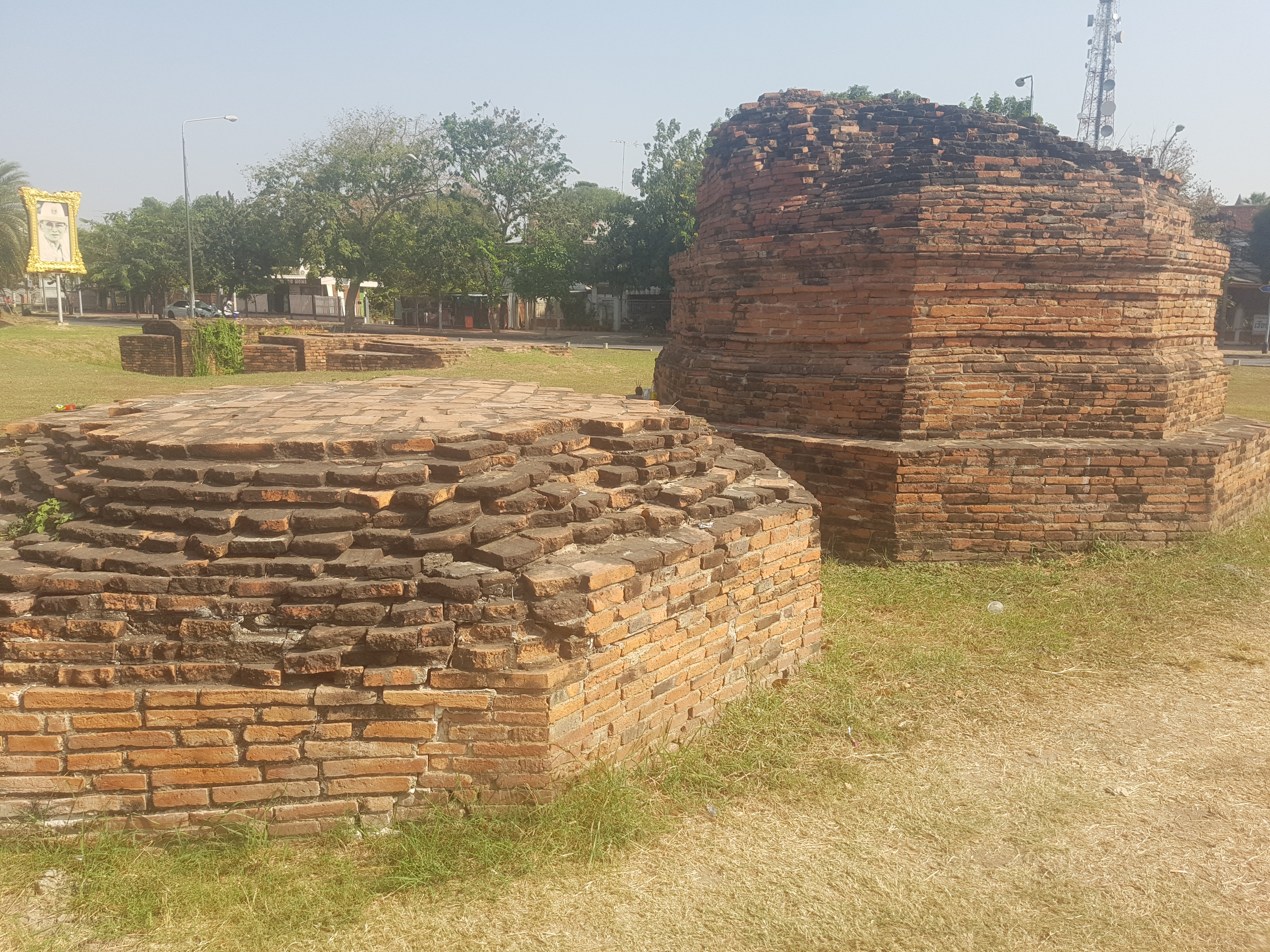 Stupas of Chao Ai Phraya and Chao Yi Phraya in front of Wat Ratchaburana in the Ayutthaya Historical Park, Phra Nakhon Si Ayutthaya Province, Thailand, built by Chao Sam Phraya for his elder brothers, Chao Ai Phraya and Chao Yi Phraya who died at that place.